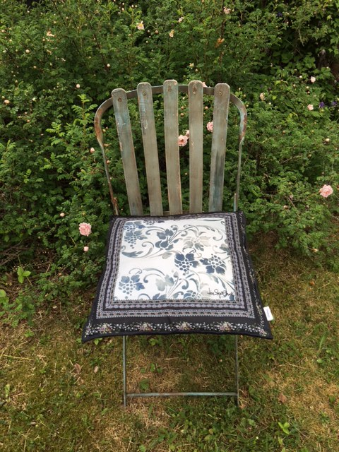 cushion/pillow case designed by the Norwegian textile designer Lise Skjåk Bræk. The design is based on traditional Norwegian designs.